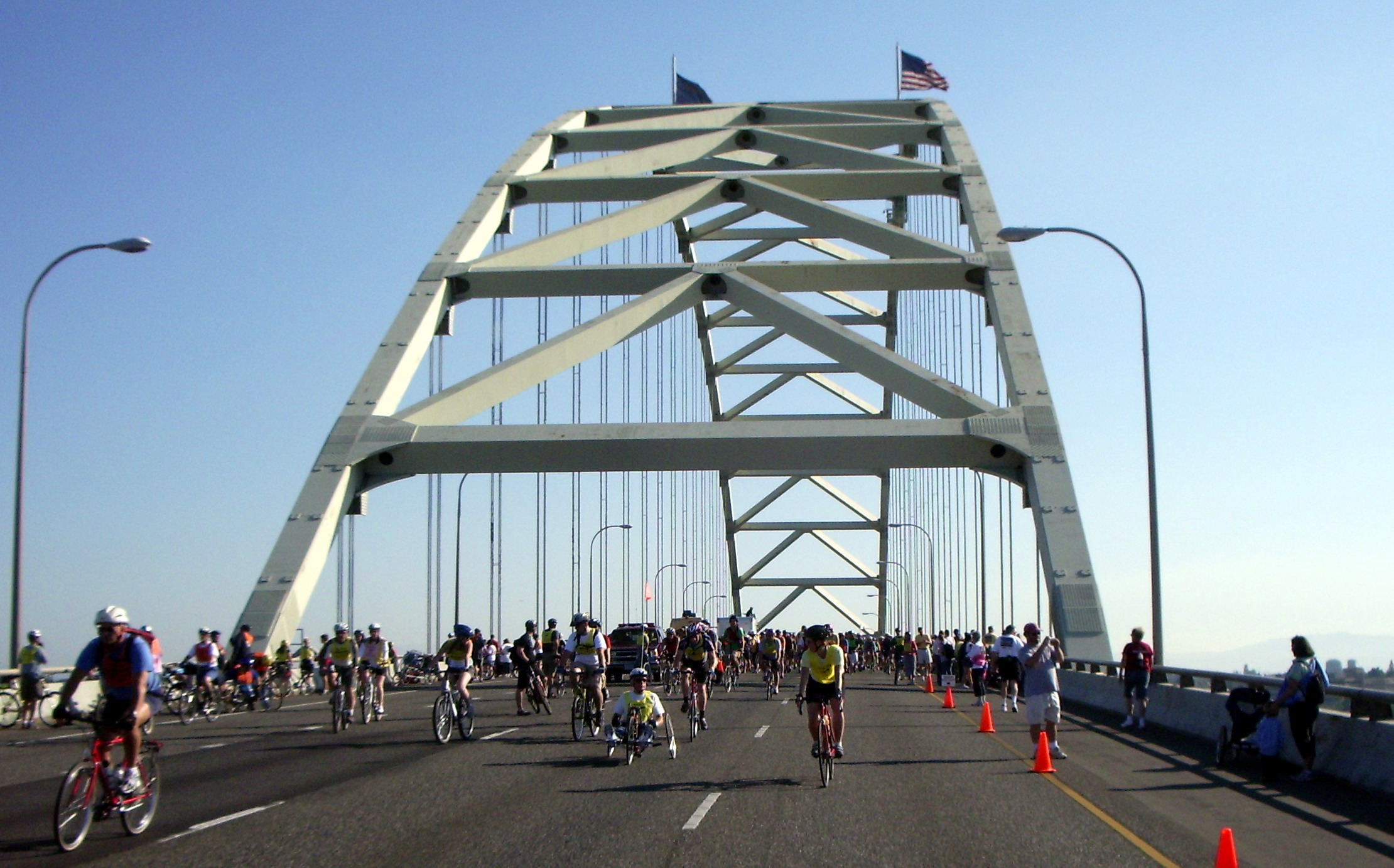 Top deck of Fremont Bridge (Portland) during Portland Bridge Pedal 2006